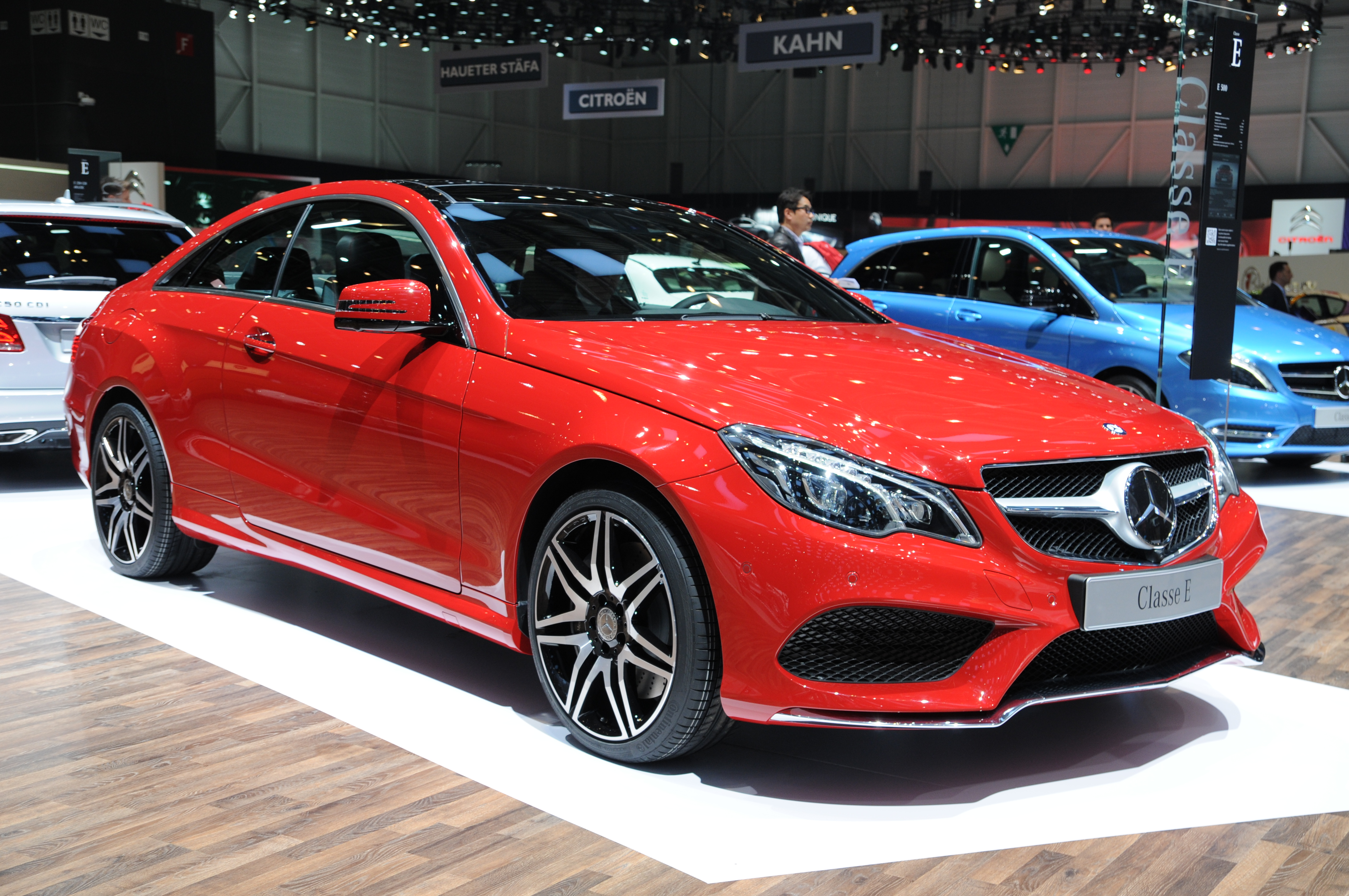 Geneva Motor Show 2013 (photos taken on the first press day)